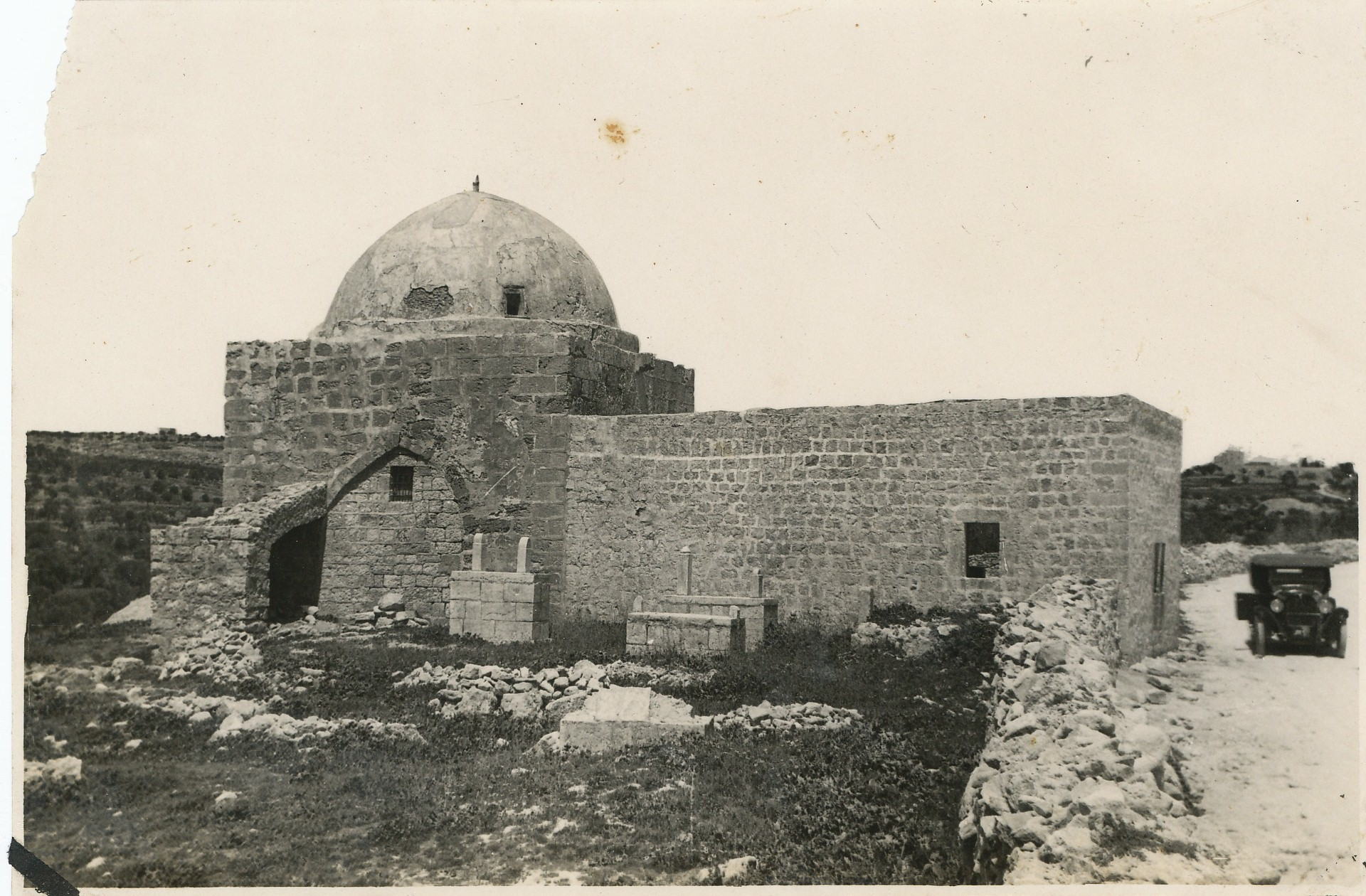 Rachel's tomb with Muslim graves. View looking north towards Tantor.